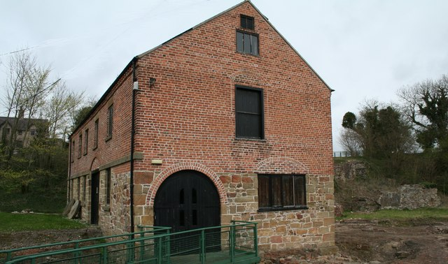 Bersham Ironworks Part of the John (Iron Mad) Wilkinson, Iron works at Bersham, near Wrexham.